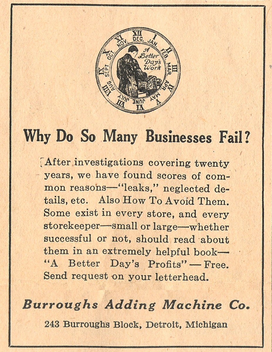 Burrough's Adding Machines Co. Ad, 1914